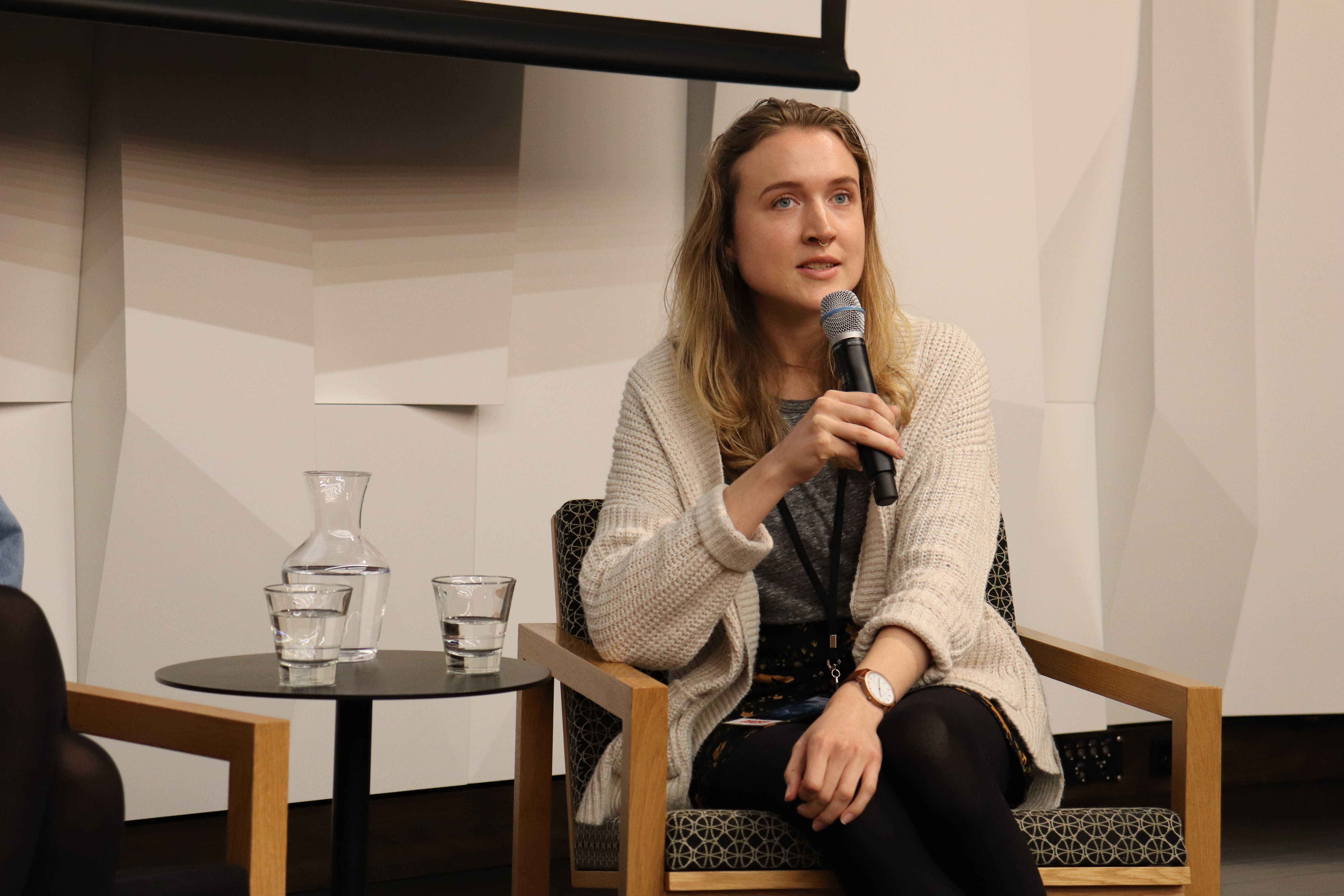 Katie O’Neill on the discussion panel "The Ascent of Children’s Comics" for ComicFest 2019 at the National Library of New Zealand